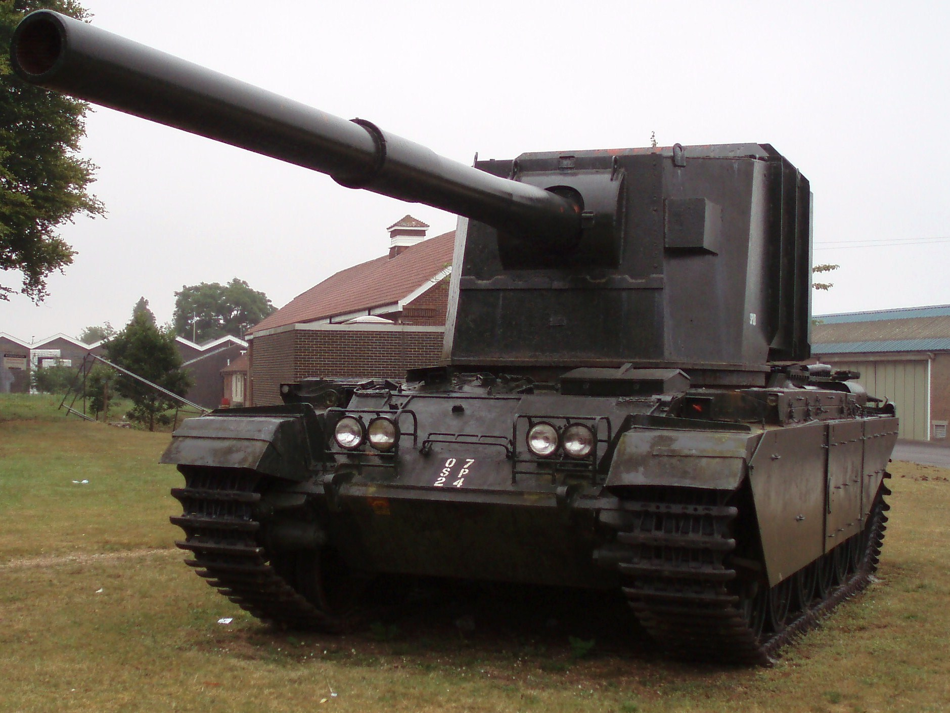 FV 4005 stage 2 in the Bovington Tank Museum